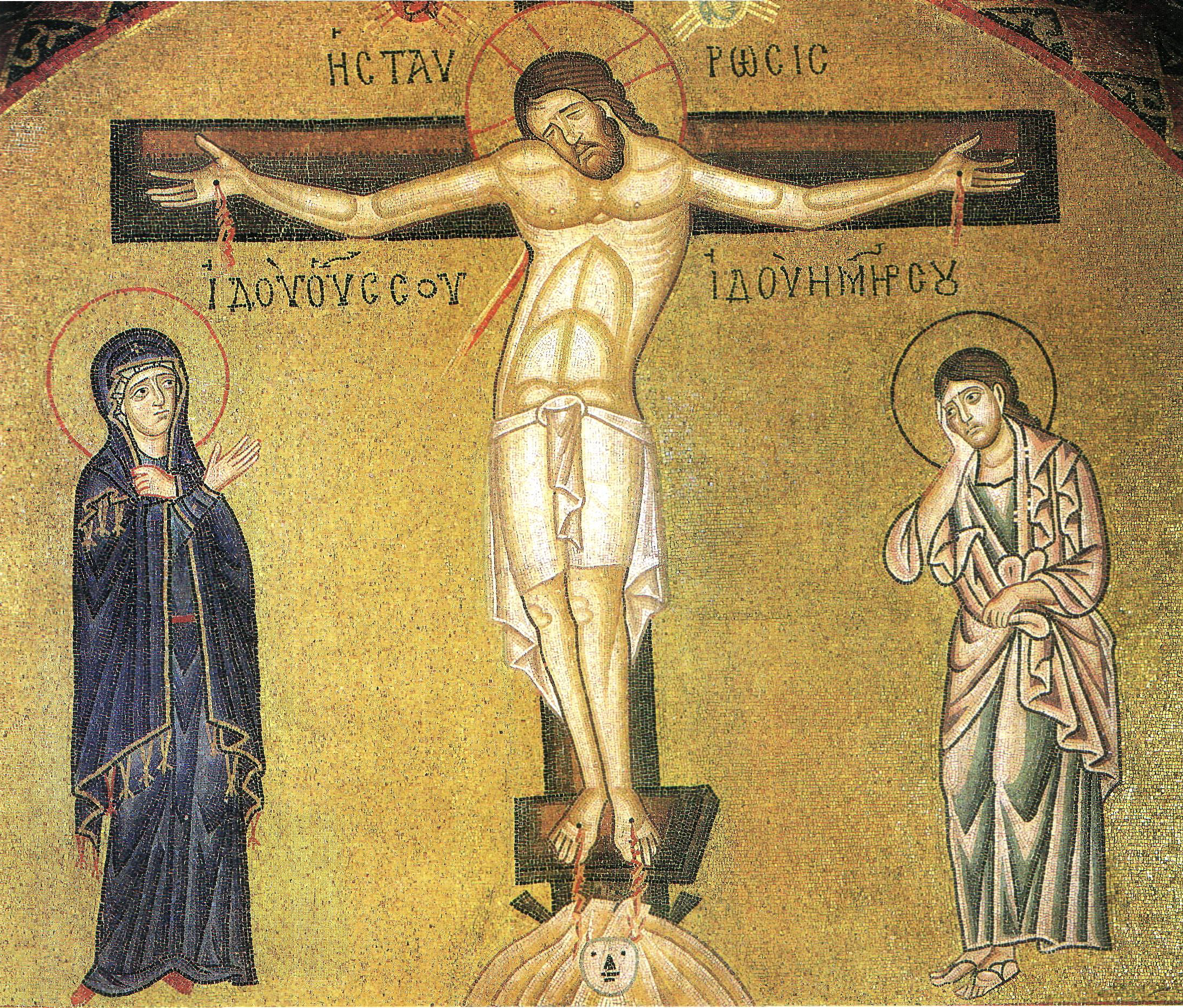 Mosaics in Hosios Loukas Monastery, Boeotia, Greece